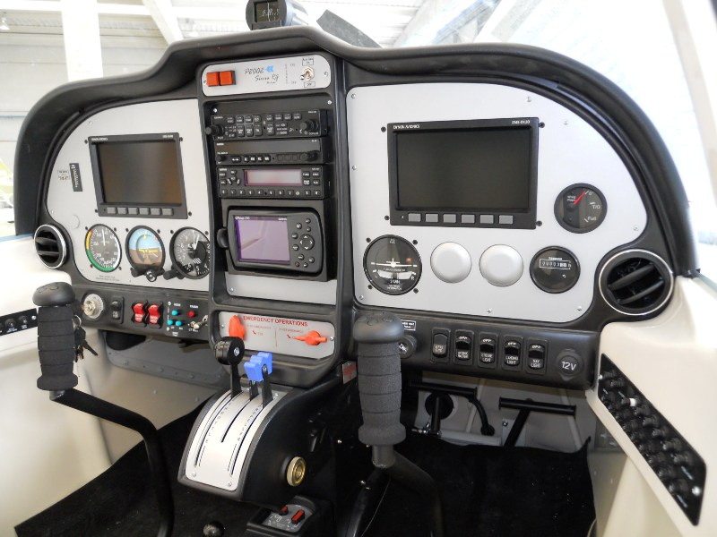 Tecnam P2002 RG, cabin digital